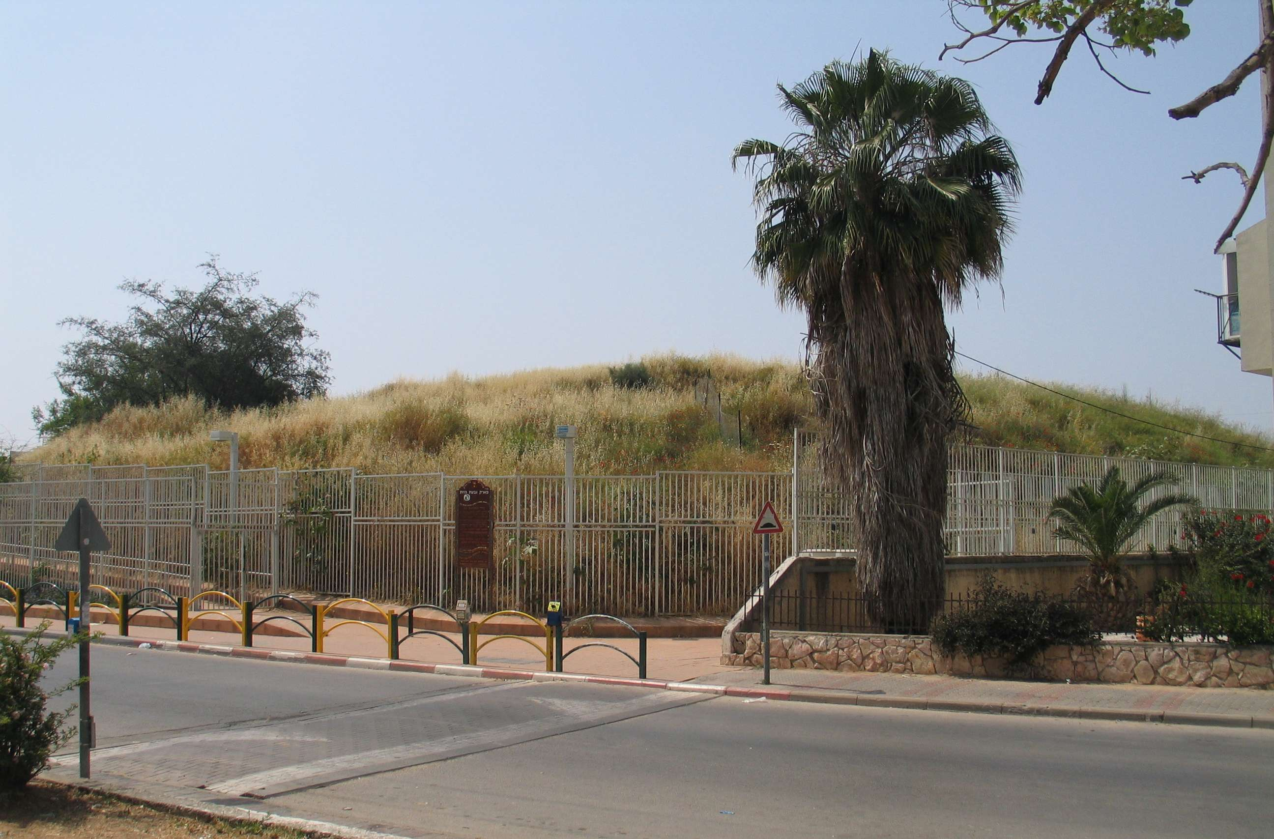 Tel Abu Zeitun (Givat Zayt), Bnei Brak, Israel.